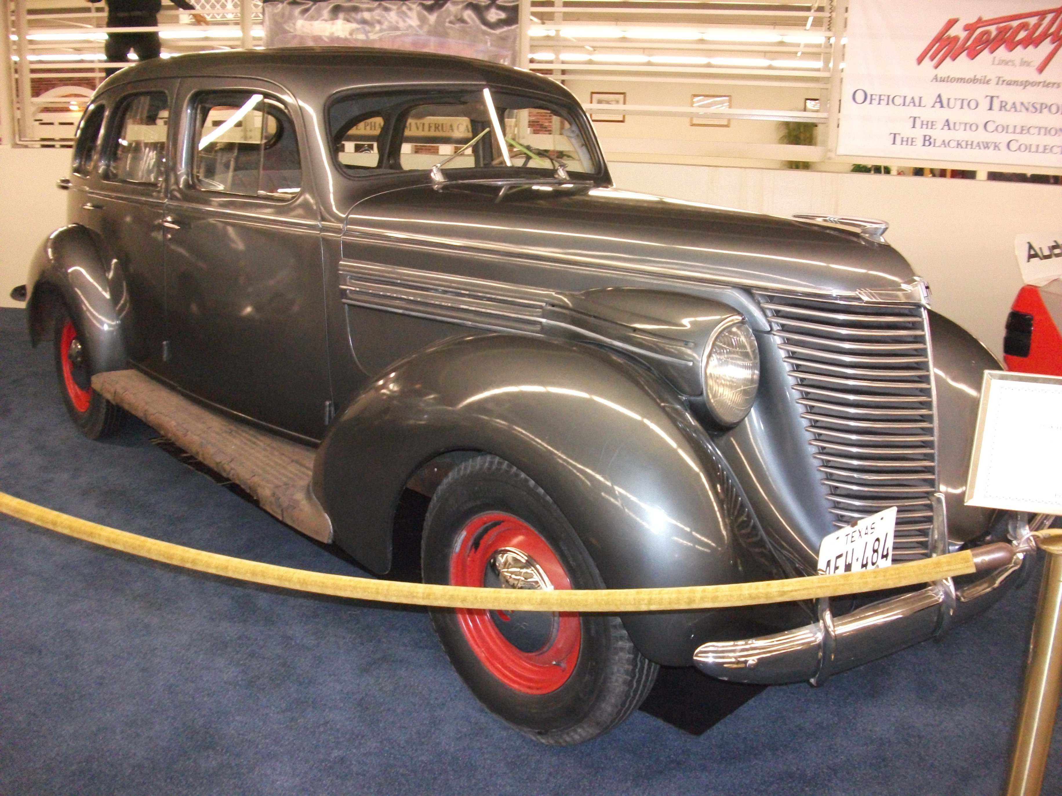 1938 Hupmobile 822-E said to be original with the exception of a re-paint.